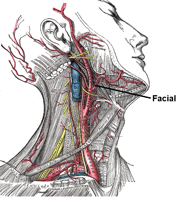 Superficial dissection of the right side of the neck, showing the carotid and subclavian arteries.